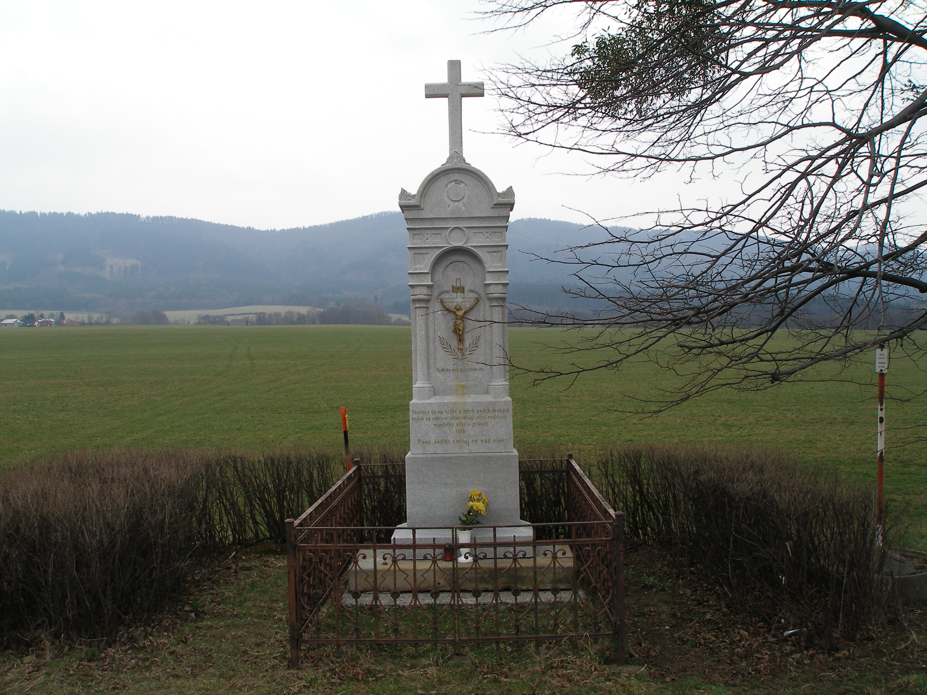 Memorial for death in World War I.